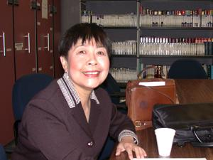 Dai Qing.